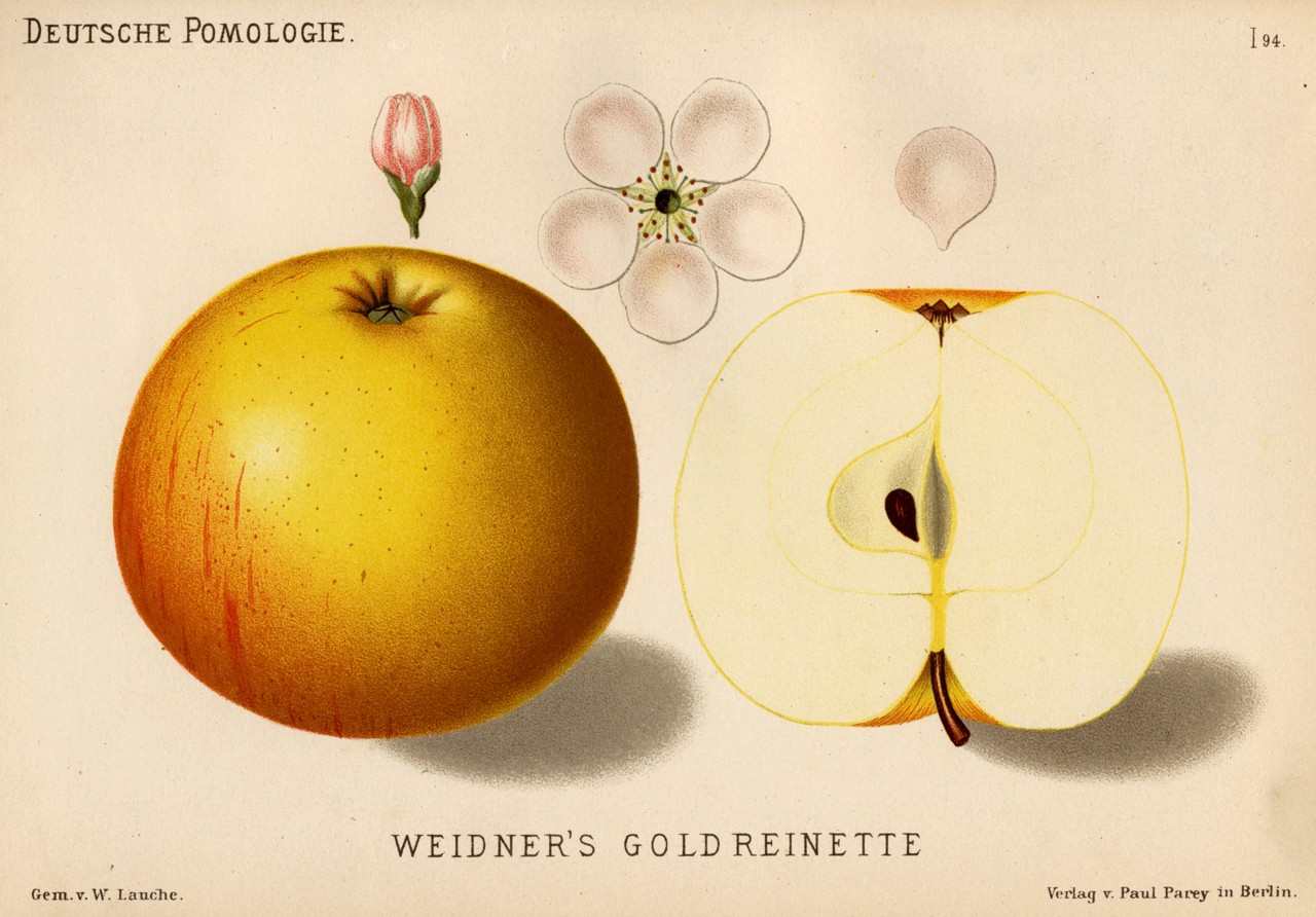 Illustration 94 from Deutsche Pomologie - Aepfel Apple cultivar shown: Weidner's Goldreinette